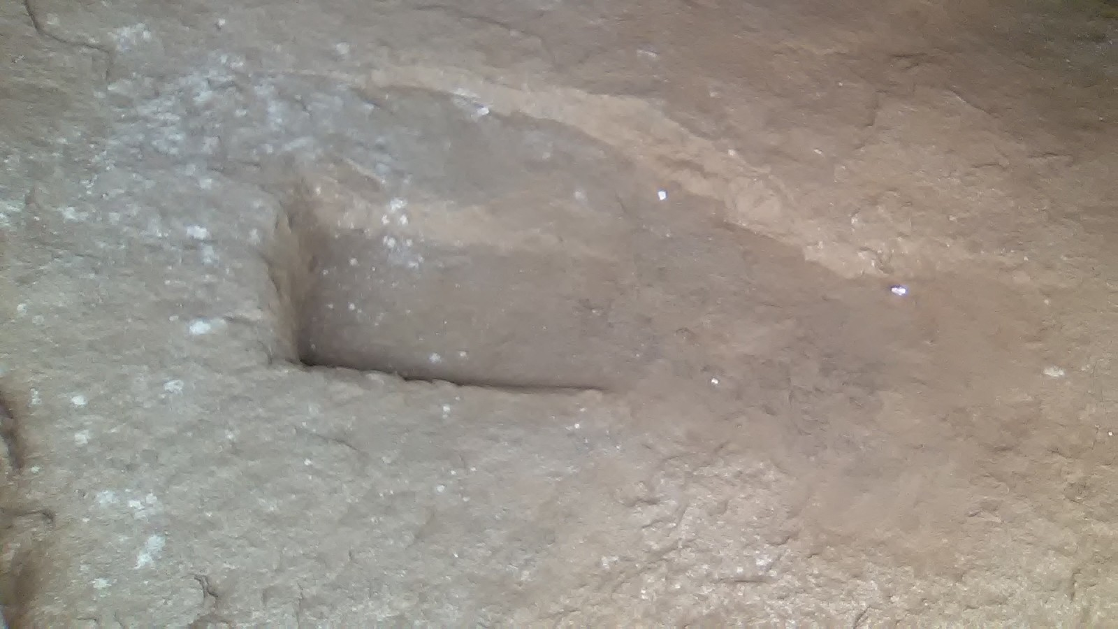 ஒசூர் பிரம்மன் மலைக் குகையில் உள்ள சமணர்படுக்கை